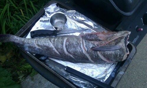 Whole Hake prepared for grilling. From the Cape Anne Fresh Catch community supported fishery.